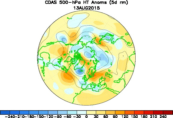 Oscillation Teleconnections polar map CDAS NH 500-hPa HT Heights (5 d rm) 13 aug 2015: Analyzed 500-hPa heights and anomalies. Five-day mean, centered on the date indicated in the title, of 500-hPa heights and anomalies from the NCEP Climate Data Assimilation System (CDAS). Contour interval for heights is 120 m, anomalies are indicated by shading. Anomalies are departures from the 1981-2010 daily base period means. (Text after NOAA, Northern Hemisphere 500 hecto Pascals Height Anomalies Animation)Illustrates extended tropical Headley cells, very westward moved Azores high, extreme blocking and high-pressure ridge from Europe to the North pole: Ending of third European summer heat wave 2015; up to 45°C in Egypt.